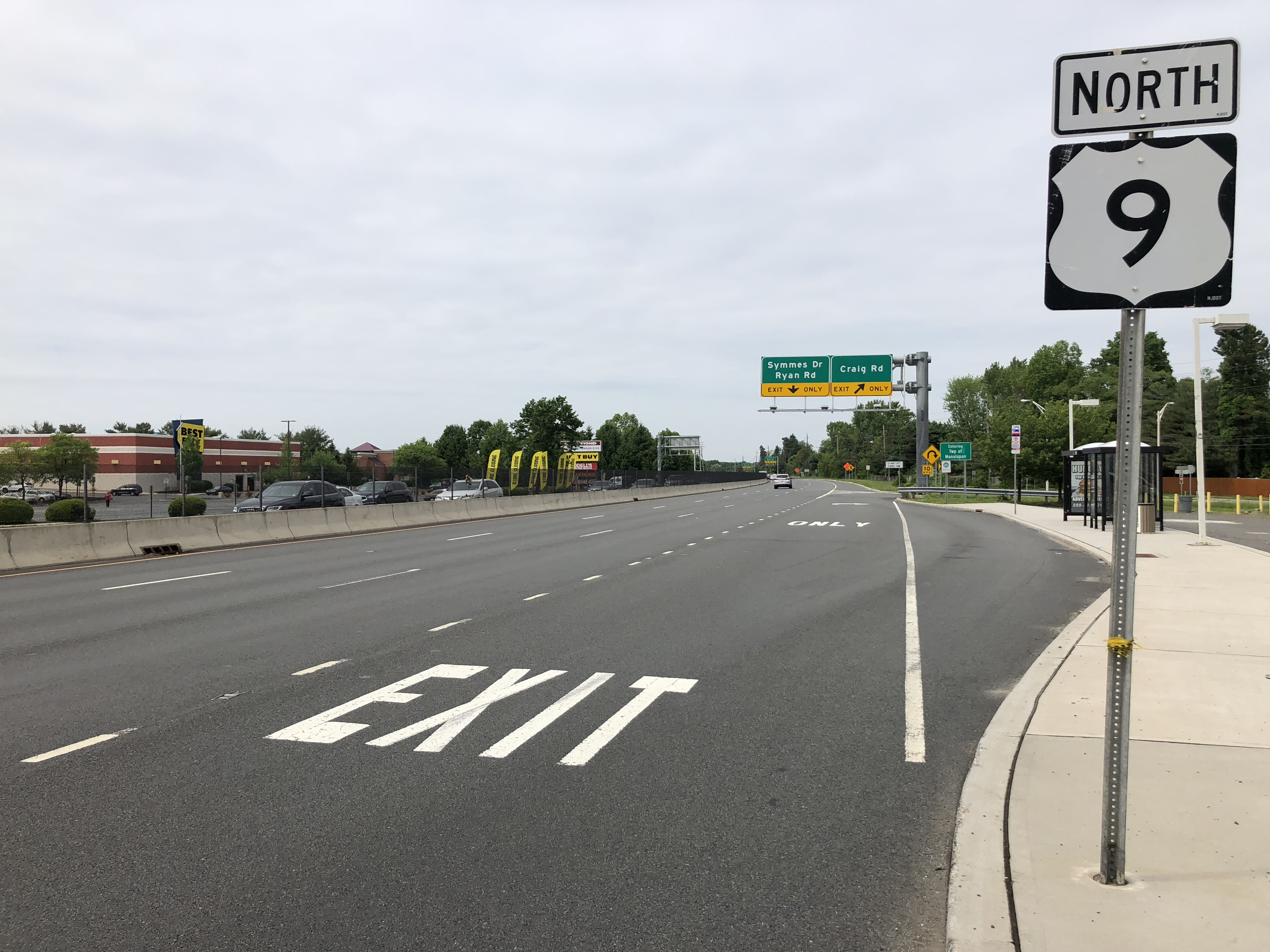 View north along U.S. Route 9 at Craig Road/East Freehold Road at the border of Freehold Township and Manalapan Township in Monmouth County, New Jersey